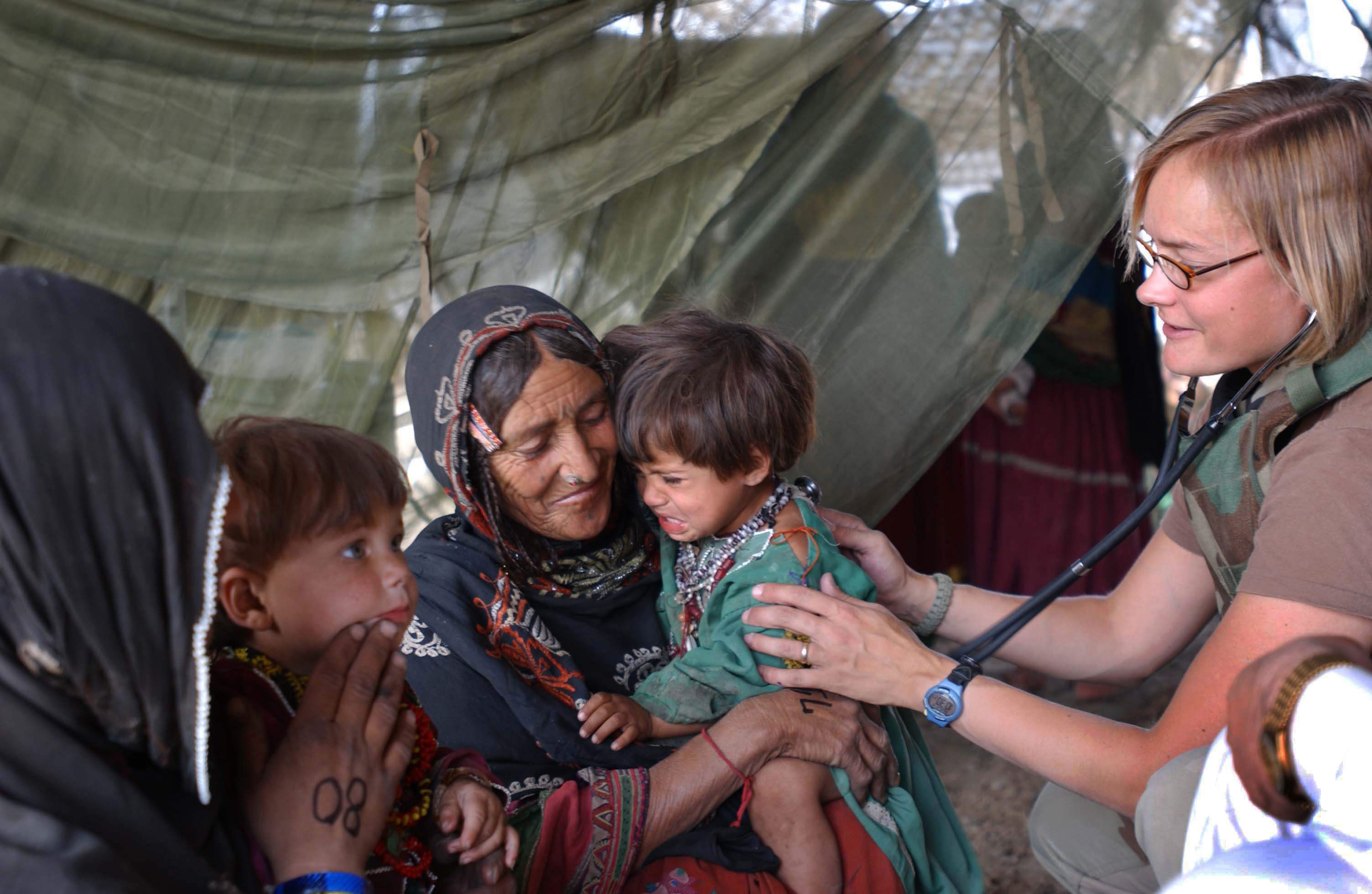 A local Afghani woman, from the Kuchi Tribe, located in the city of Gardez, Afghanistan, tries to comfort her daughter, as US Army (USA) Major (MAJ) Mary V. Krueger, 321st Civil Affair Battalion, gives the child an examination. MAJ Krueger is assigned to the Surgeon Cell, for the Combined Joint Civil Military Task Force (CJCMOTF), which operate an ambulatory clinic that provides vaccinations, acute and preventive medical care for members of the local Tribes.